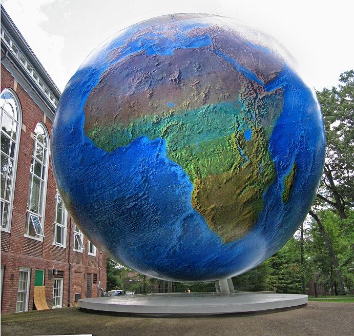 The globe on the campus of Babson College, Wellesley, Massachusetts, U. S. This is the restored globe installed in 1994, replacing the original 1955 globe.